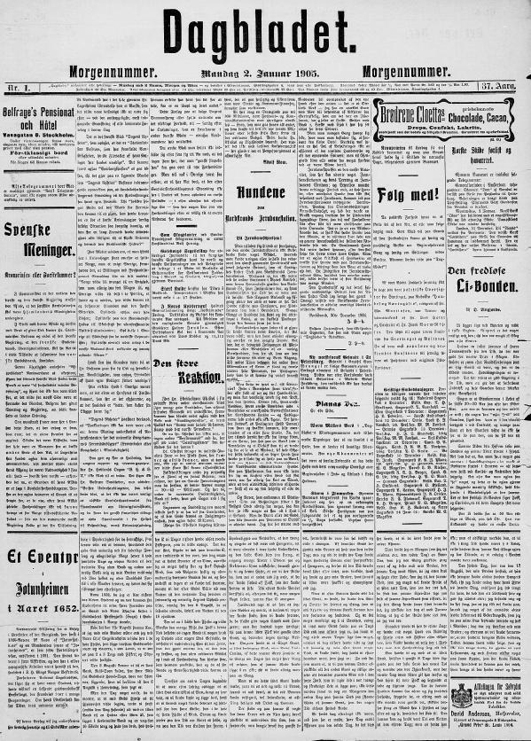 The front page of the norwegian newspaper Dagbladet from the 2nd of January 1905.